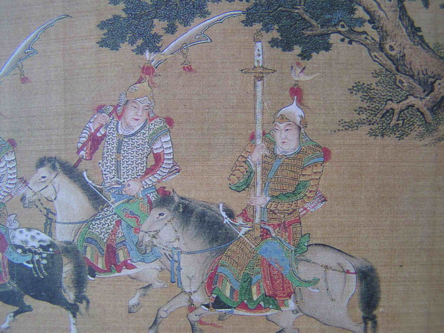 Close up view of two horsemen in the Ming Dynasty painting "Departure Herald".